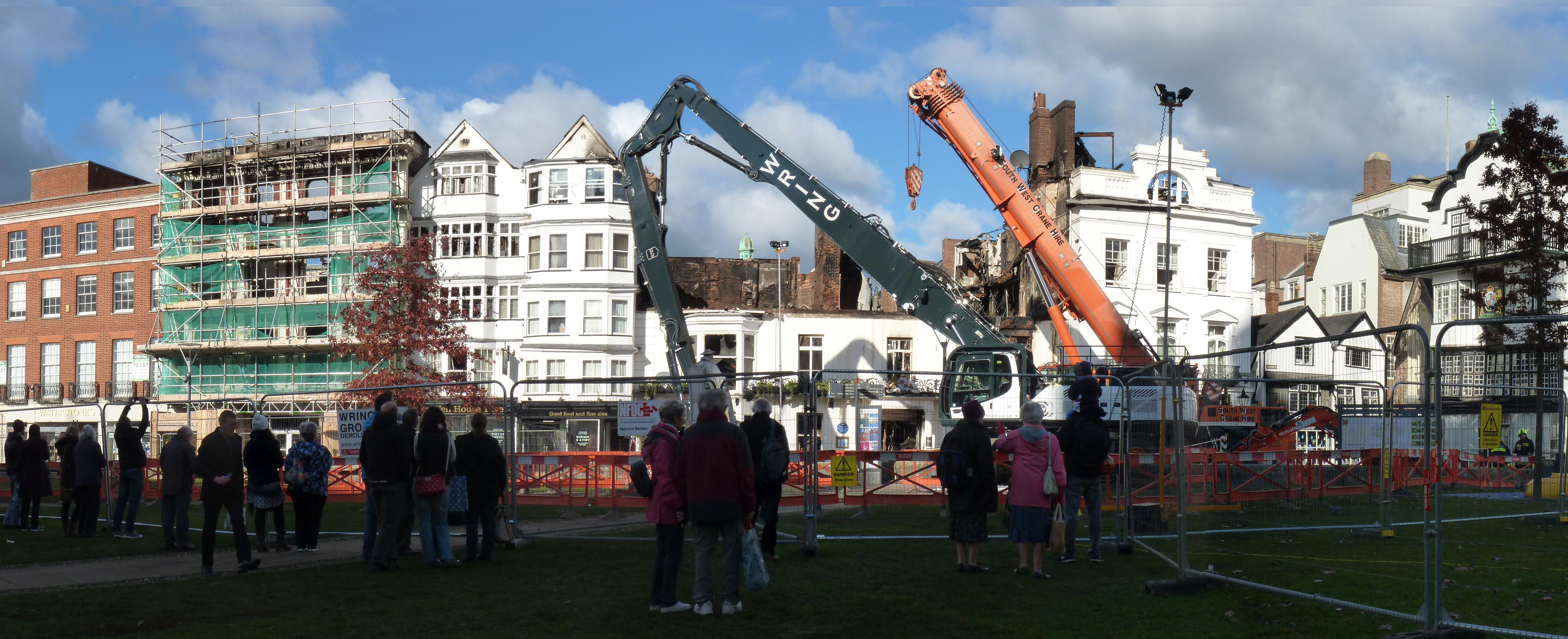 The Royal Clarence Hotel and adjoining buildings, Exeter, Devon, England, on a sunny morning after the fire of late October 2016.